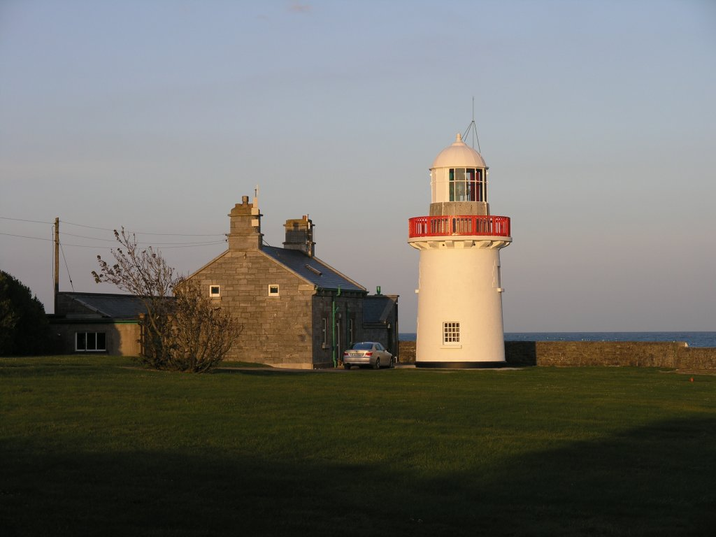 Ballynacourty Point lighthouse